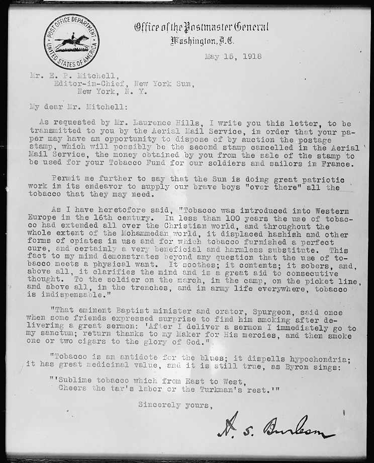 First letter (or one of the first letters) sent by U.S. airmail, from U.S. Postmaster Albert S. Burleson to the editor of the New York Sun. Over half the letter is devoted to extolling the virtues of tobacco! Title: NEW YORK SUN. FIRST AIR MAIL LETTER, 1918 Creator(s): Harris & Ewing, photographer Date Created/Published: 1918. Medium: 1 negative : glass ; 8 x 10 in. or smaller Reproduction Number: LC-DIG-hec-20588 (digital file from original negative) Rights Advisory: No known restrictions on publication. Call Number: LC-H25- 91223-A [P&P] Repository: Library of Congress Prints and Photographs Division Washington, D.C. 20540 USA Notes: Title from unverified caption data received with the Harris & Ewing Collection. Portrait series. Gift; Harris & Ewing, Inc. 1955. General information about the Harris & Ewing Collection is available at Format: Glass negatives. Collections: Harris & Ewing Collection Reproduction Number: LC-DIG-hec-20588 (digital file from original negative) Call Number: LC-H25- 91223-A [P&P] Medium: 1 negative : glass ; 8 x 10 in. or smaller